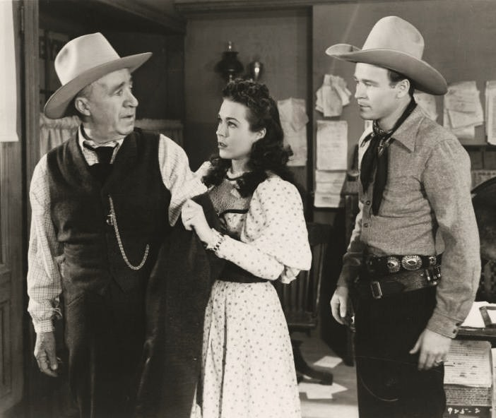 L. to R. : J. Farrell MacDonald, Joan Woodbury & Roy Rogers in In Old Cheyenne - cropped screenshot